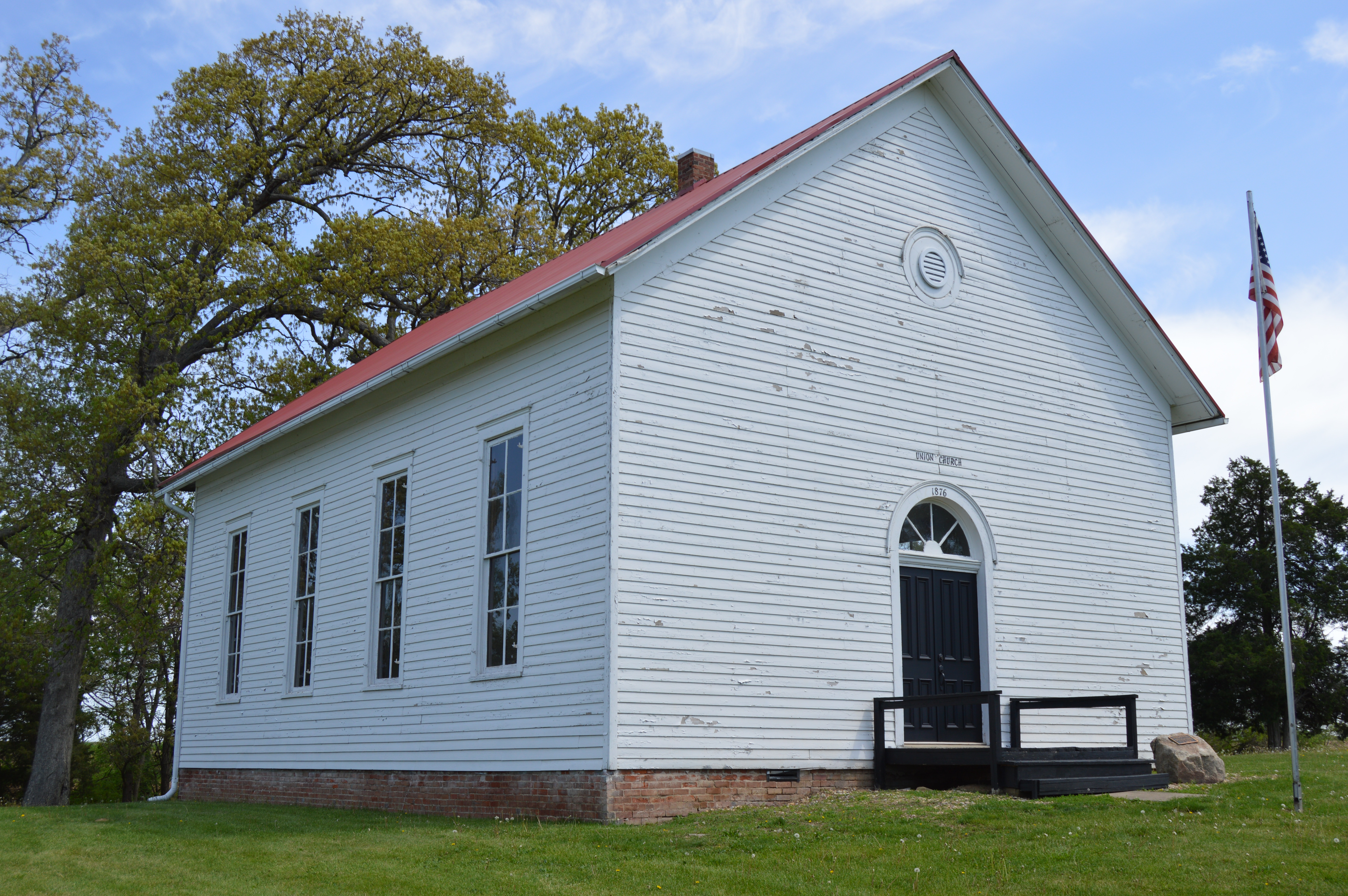 Western side and front of the Union Church, located on Kirby Road southeast of Oreana in Long Creek Township, Macon County, Illinois, United States. Built in 1876, it is listed on the National Register of Historic Places.